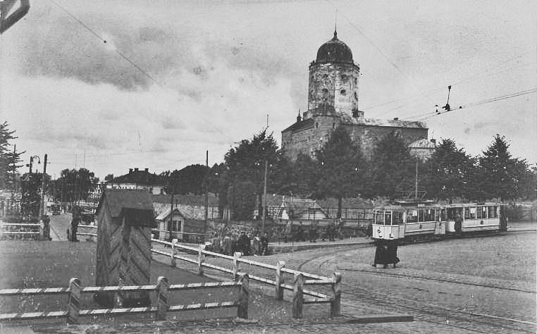 Tram in Vyborg, Finland in the 1930s.